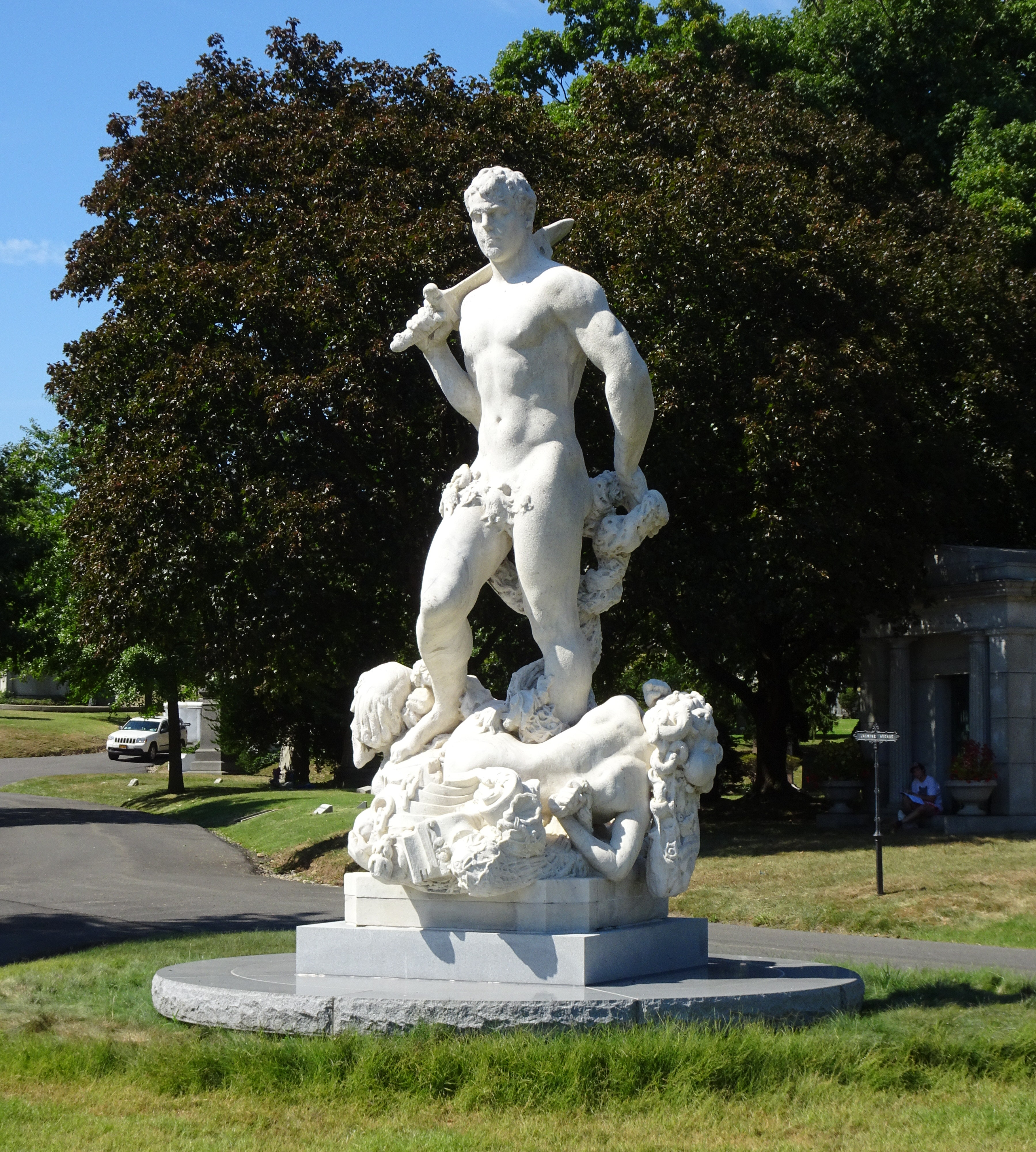 Looking northwest at statue on a sunny midday.